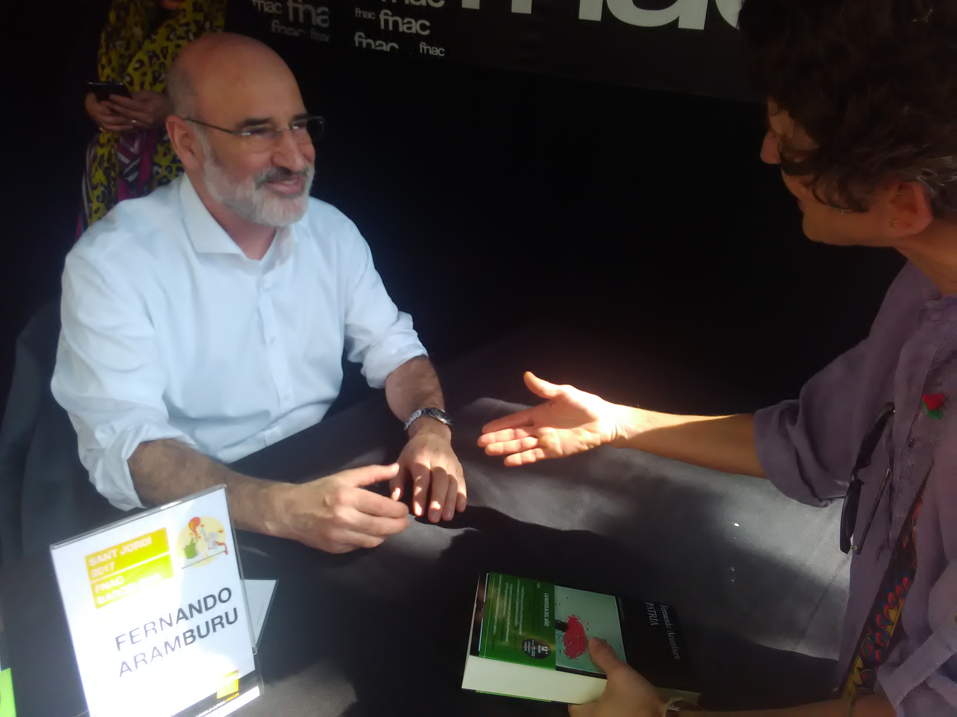 Writer Fernando Aramburu signing books at Sant Jordi's Day 2017 in Barcelona.